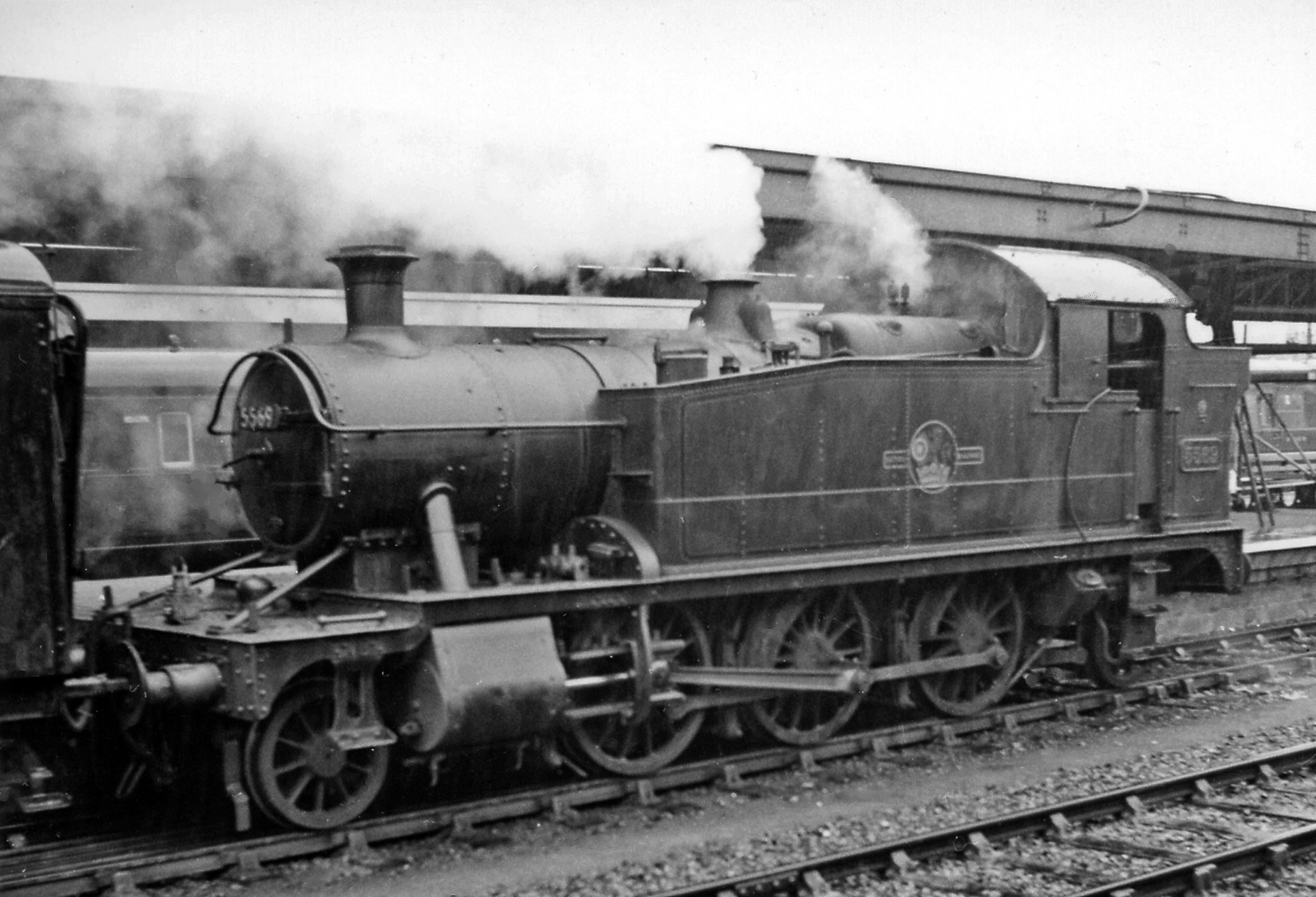 A GW 'Small Prairie 2-6-2T at Plymouth North Road Station. Collett '4575' No. 5569 (built 1/29) stands in the rain at Plymouth's main station, probably on a Tavistock and Launceston train.